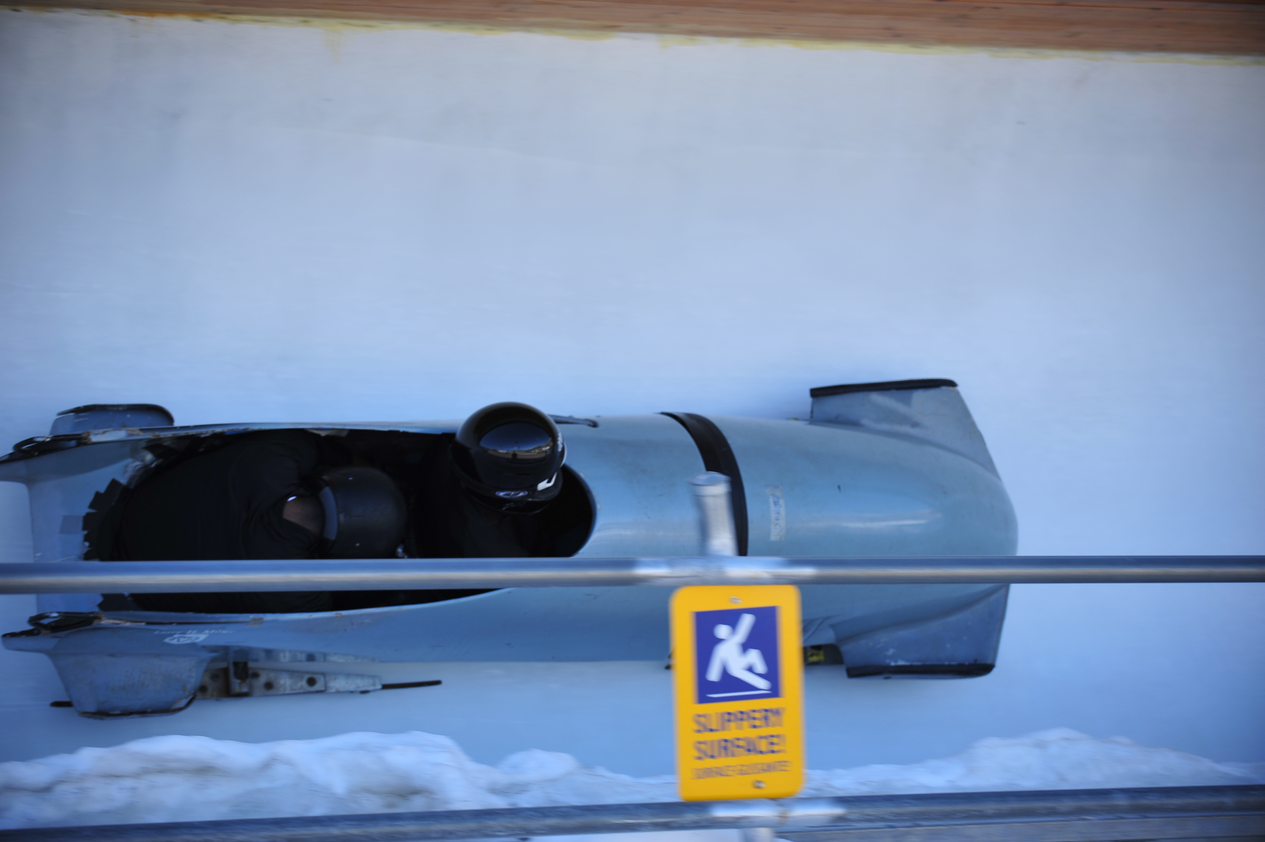 Their sled looks like a hammerhead shark. It even had gills on the side.